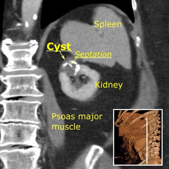 Contrast-enhanced CT of the abdomen of a 75 year old woman presenting with abdominal pain. As an incidental finding, it showed a 3 cm wide renal cyst with calcifications in its wall, seen as very radiodense (white in this presentation) areas in its margins. There is also a septation which is calcified. Yet, the cyst does not show enhancement (uptake of contrast), making it overall a 2F cyst by the Bosniak classification. Image at lower right shows the anteroposterior level of this coronal CT slice.